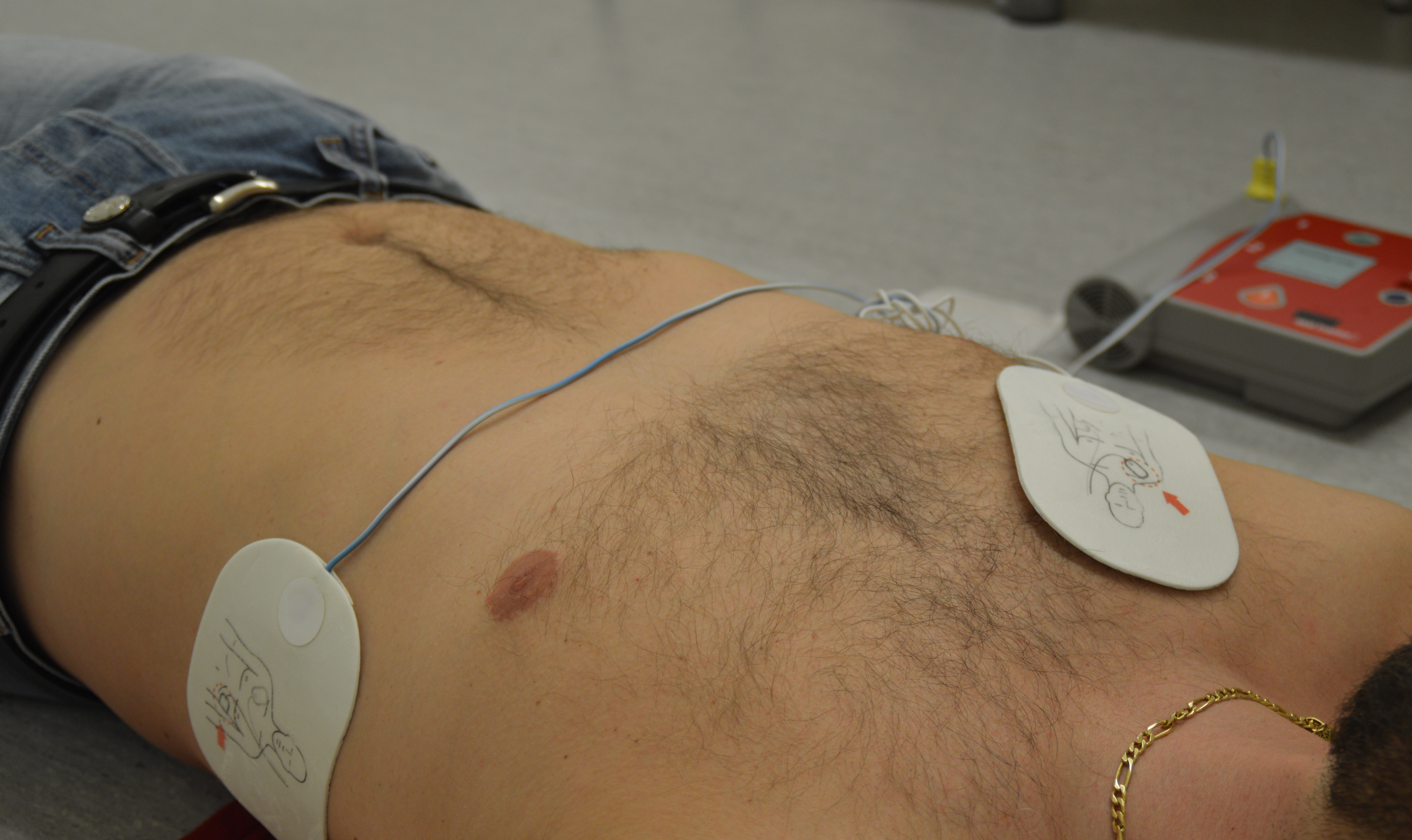 AED patches on male chest